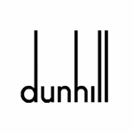 From Dunhill, logo's owner History of Image:Dunhill-logo.jpg 2008-02-15T19:24:05Z MBisanz (Talk